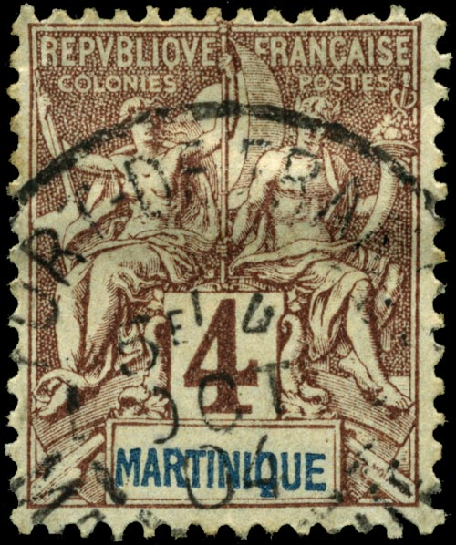 Martinique 4c stamp of 1892